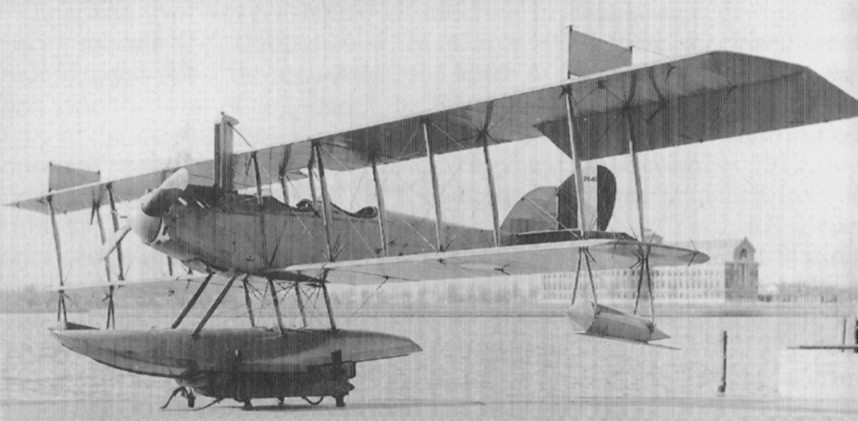 A U.S. Navy Curtiss N-9H (BuNo A2541) on a seaplane ramp.